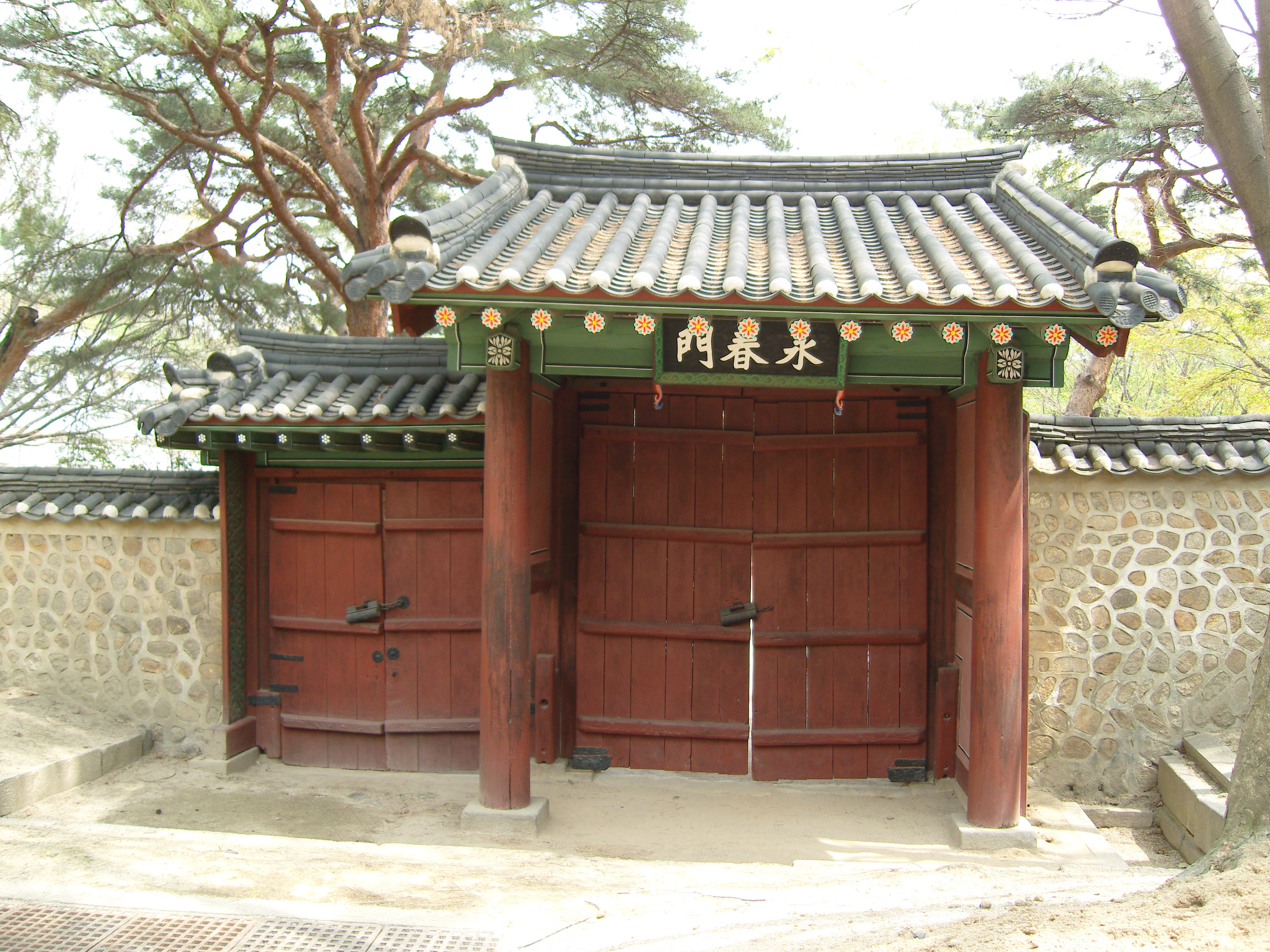 A view of Changdeokgung in the neighborhood of Waryong-dong, Jongno-gu, Seoul, South Korea